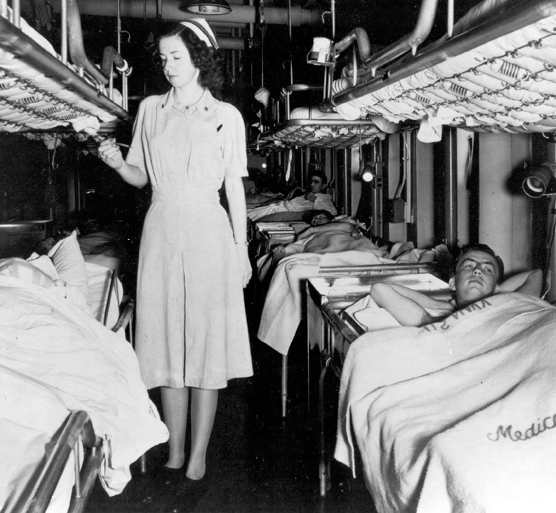 Nurse and patients in Ward C-3 of USS Consolation (1950)